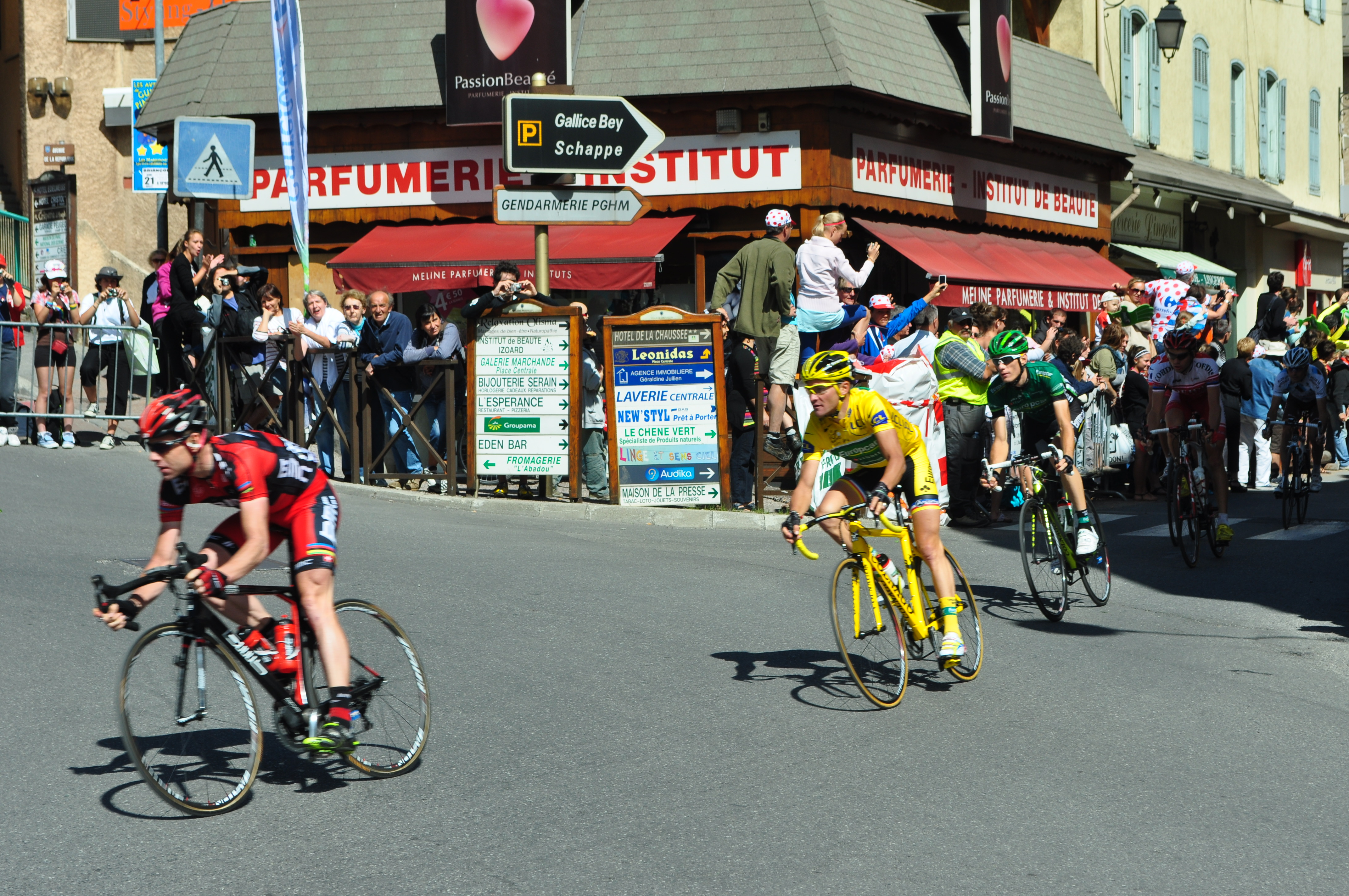 Cadel Evans rides ahead of Thomas Voeckler on Briancon during stage 18 of the 2011 Tour de France.